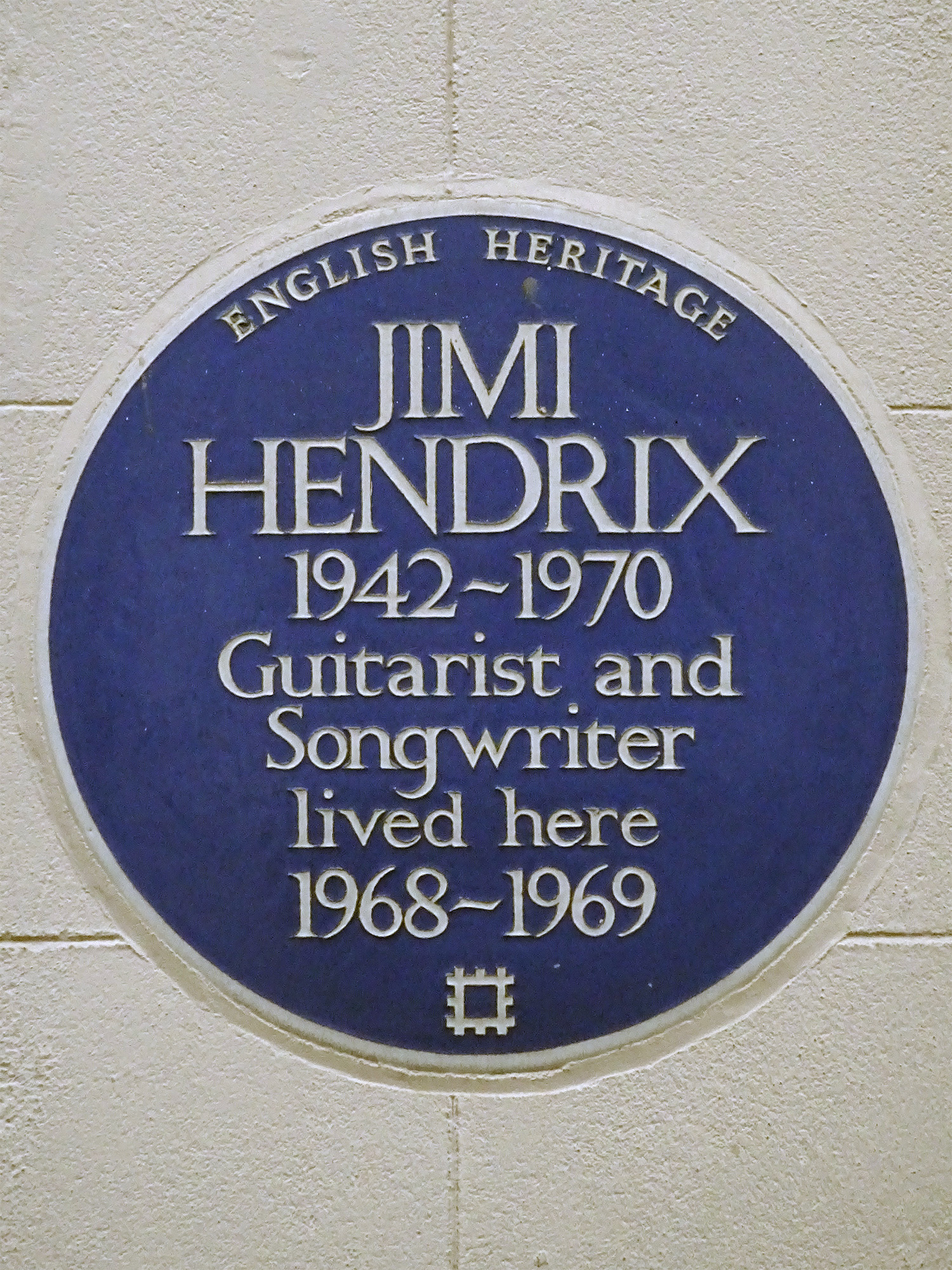 Blue plaque erected in 1997 by English Heritage at 23 Brook Street, Mayfair, London W1K 4HA, City of Westminster